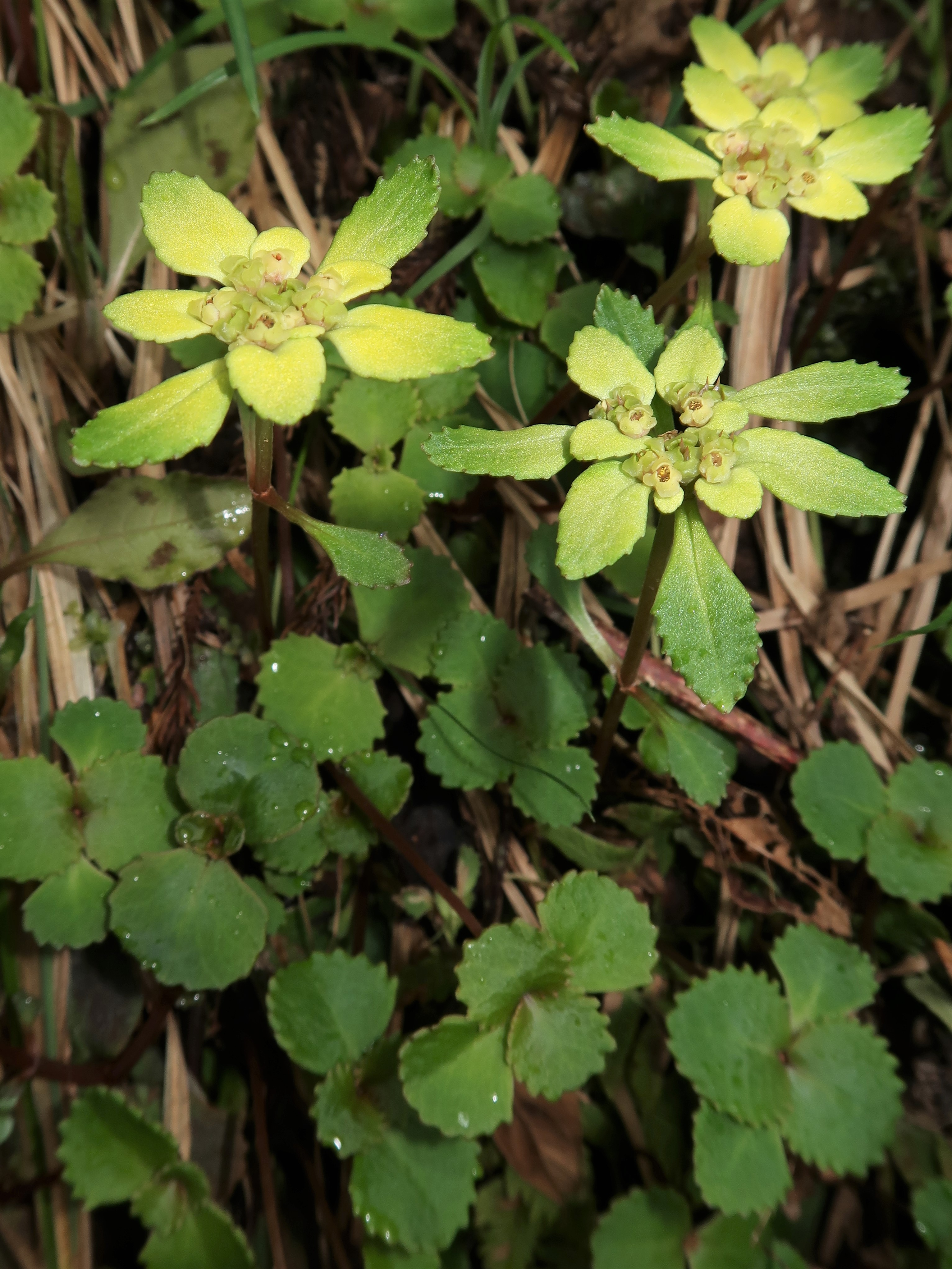 Chrysosplenium nagasei, Gujo city, Gifu pref., Japan